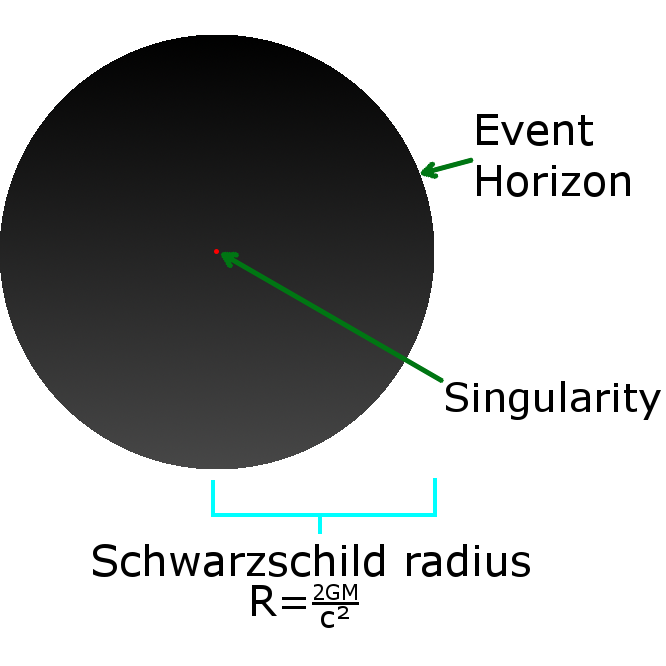 A simple illustration of a non-spinning black hole